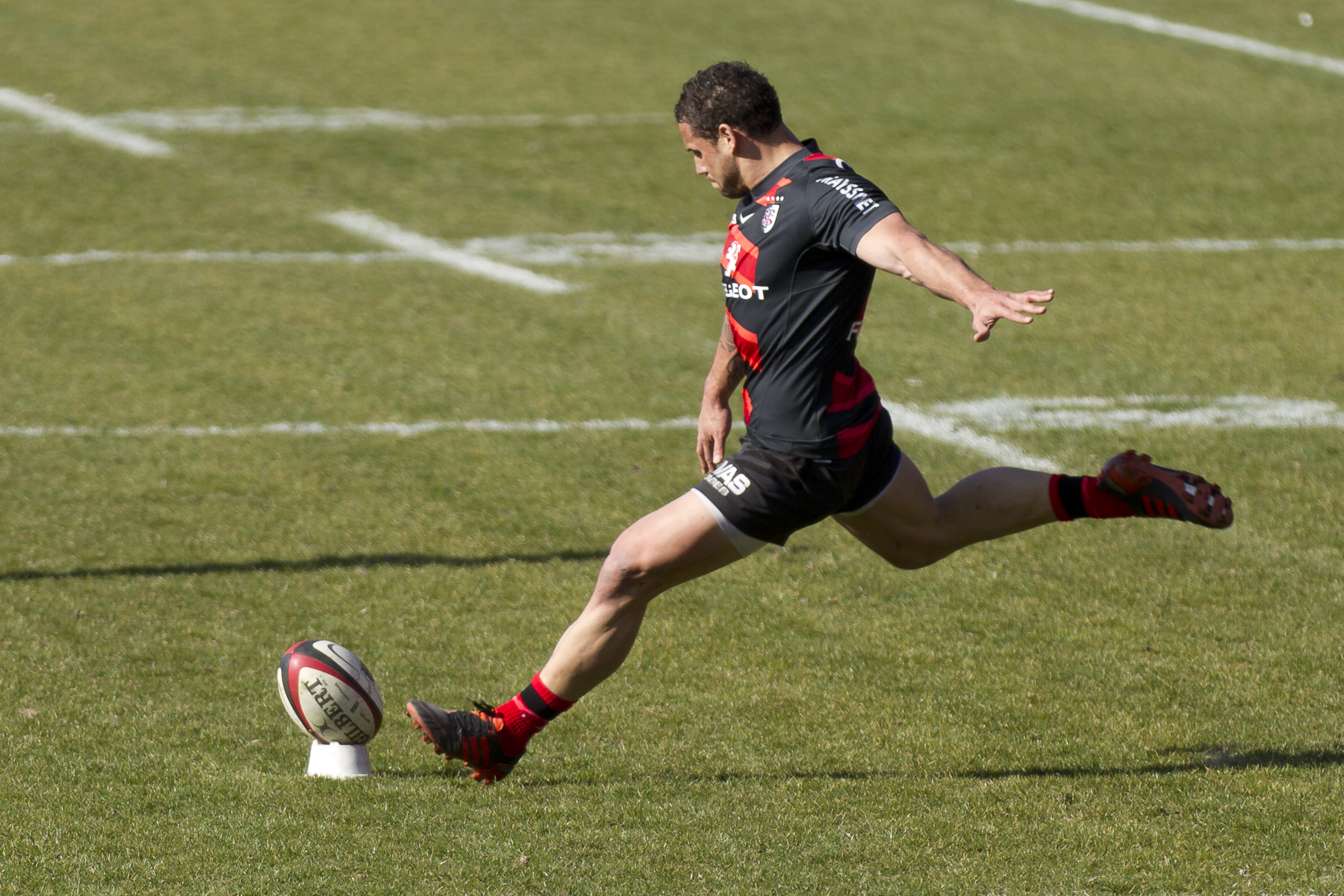 Conversion kick by Luke McAlister